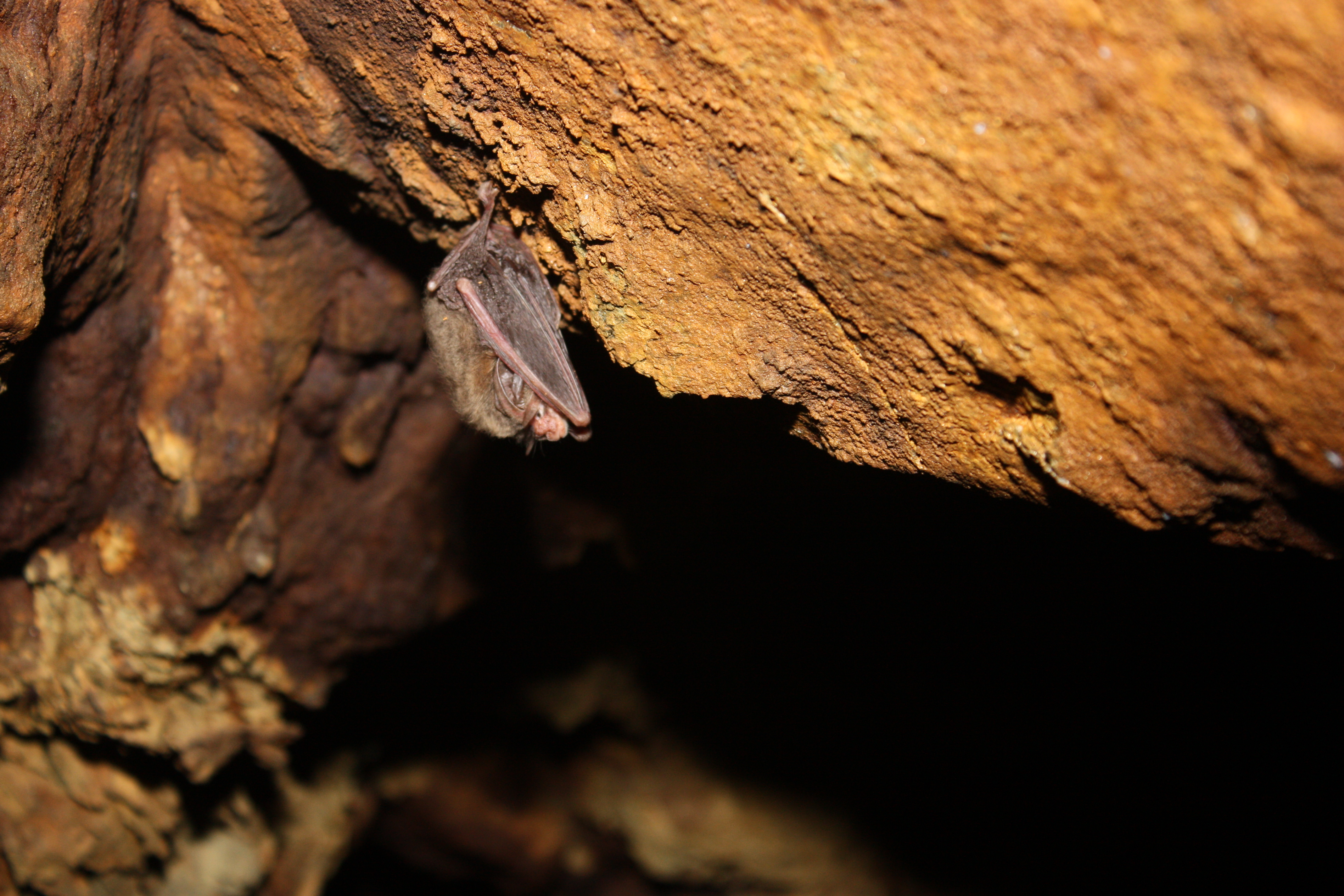 Rafinesque's big-eared bat. While visiting caves and mines during winter hibernation gives biologists an excellent opportunity to count bats, it's a sensitive time for the animals. If bats stir too much during hibernation, they may use up fat stores needed to get them through winter. For this reason, biologists visit caves and mines as rarely as possible and work quickly while underground. Credit: Gary Peeples/USFWS